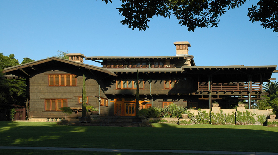 The Gamble House, Pasadena, California, by Charles and Henry Greene, 1908 (photo: 2005, after restoration)